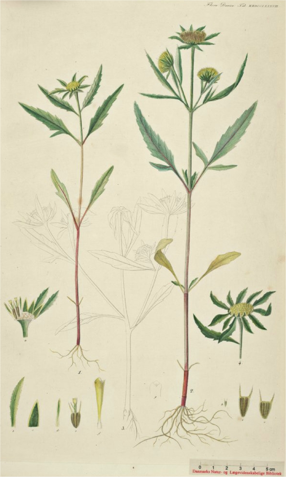 Bidens radiata